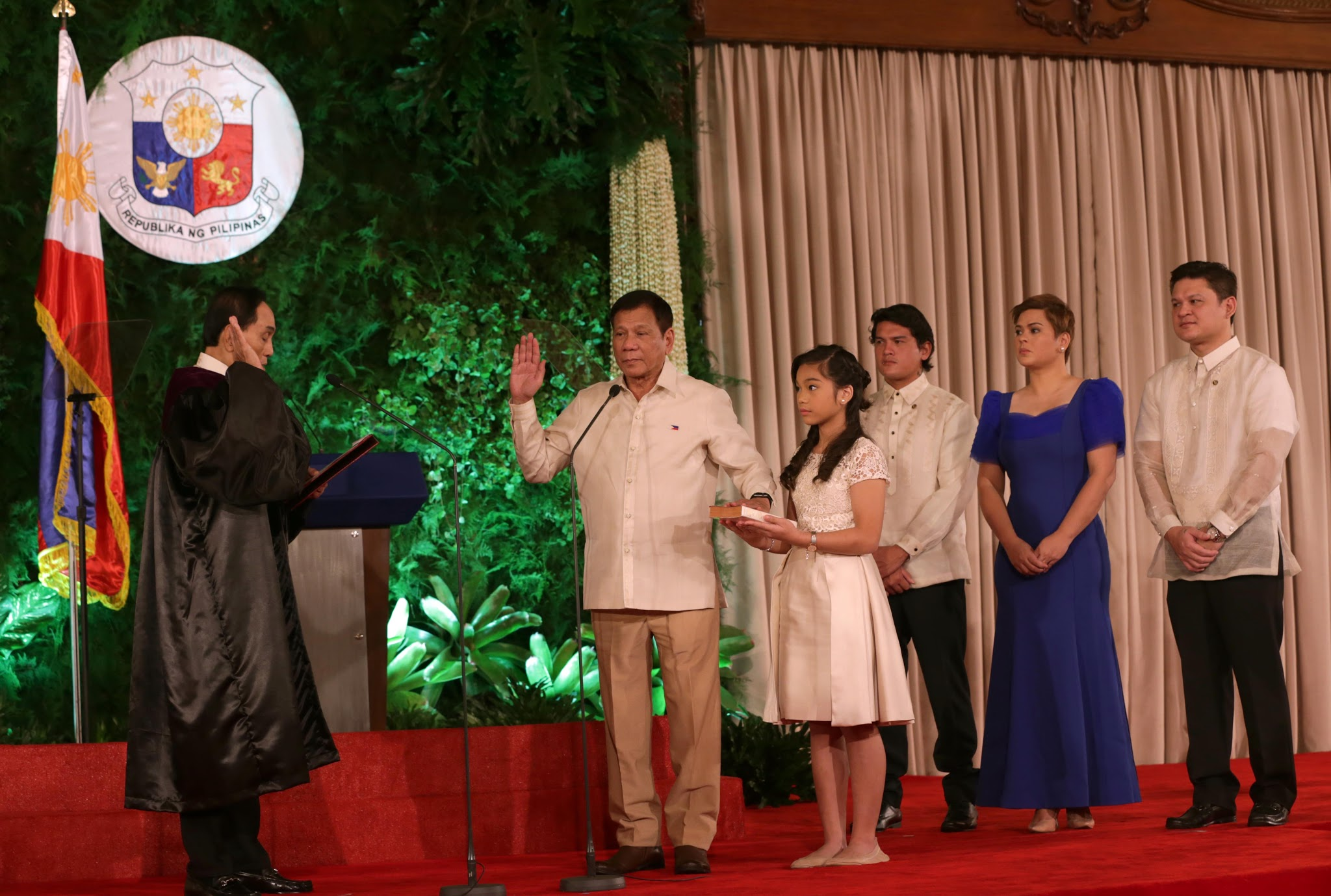 Rodrigo Duterte takes his oath as he is sworn in as the 16th President of the Philippines, 30 June 2016